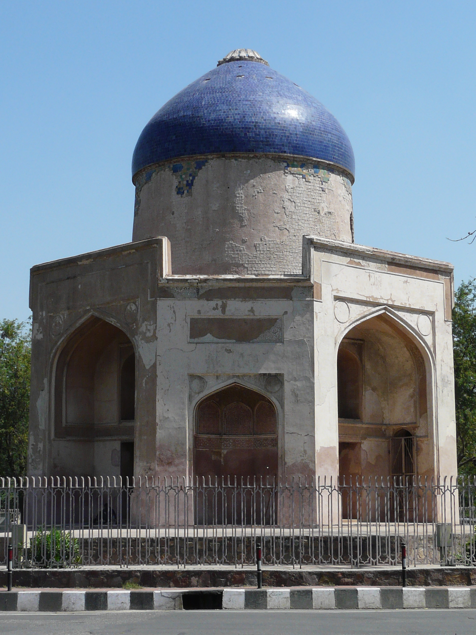 Sabz Burj on Mathura road traffic circle, near Nizamuddin, Delhi. Originally Sabz or Green colour, the blue tiles are additions by Archaeological Survey of India (ASI), during restoration, the original green, blue and yellow glazed tiles can still be seen. Showing heavy influence of Persian architecture. Also used as Police Station during British Raj.